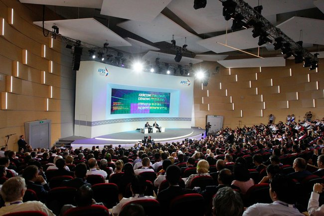 APEC Russia 2012 plenary session.